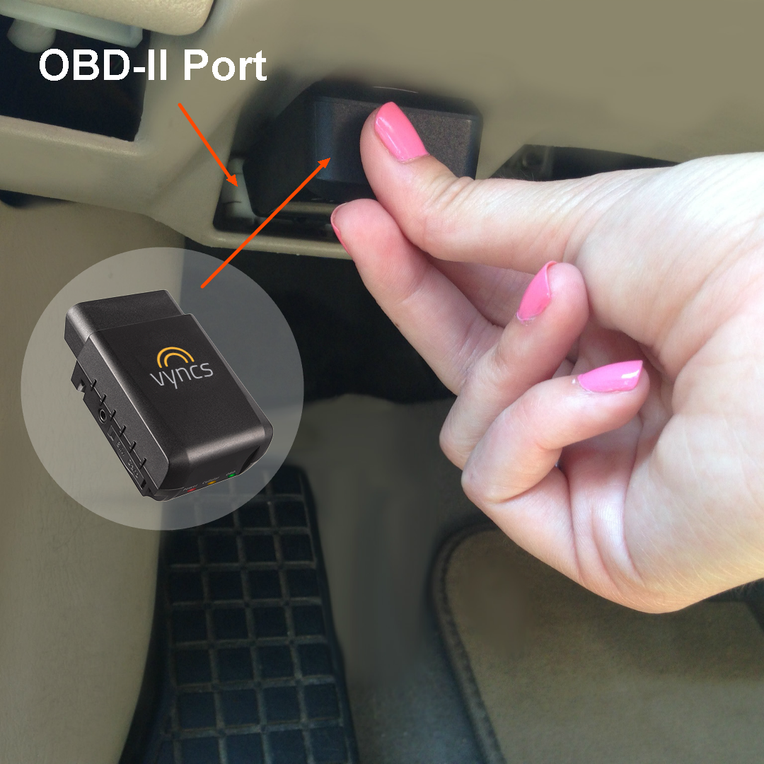 An OBD GPS Tracker is being installed into the OBD-II port of a car. Requires just pushing the device into the port.